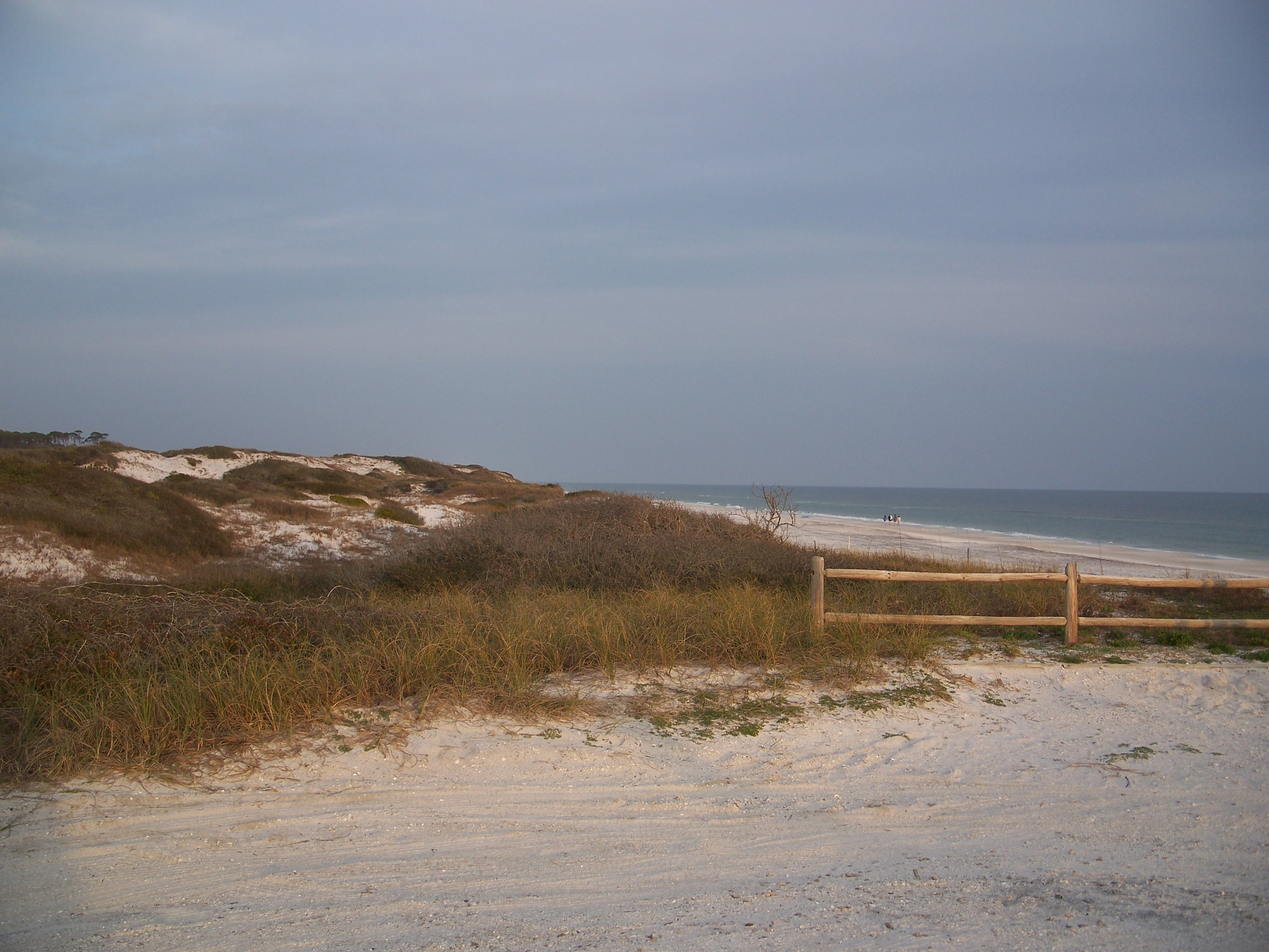 Dunes and beach at Grayton Beach State Park.